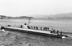 French sumbarine Armide, of the Armide class